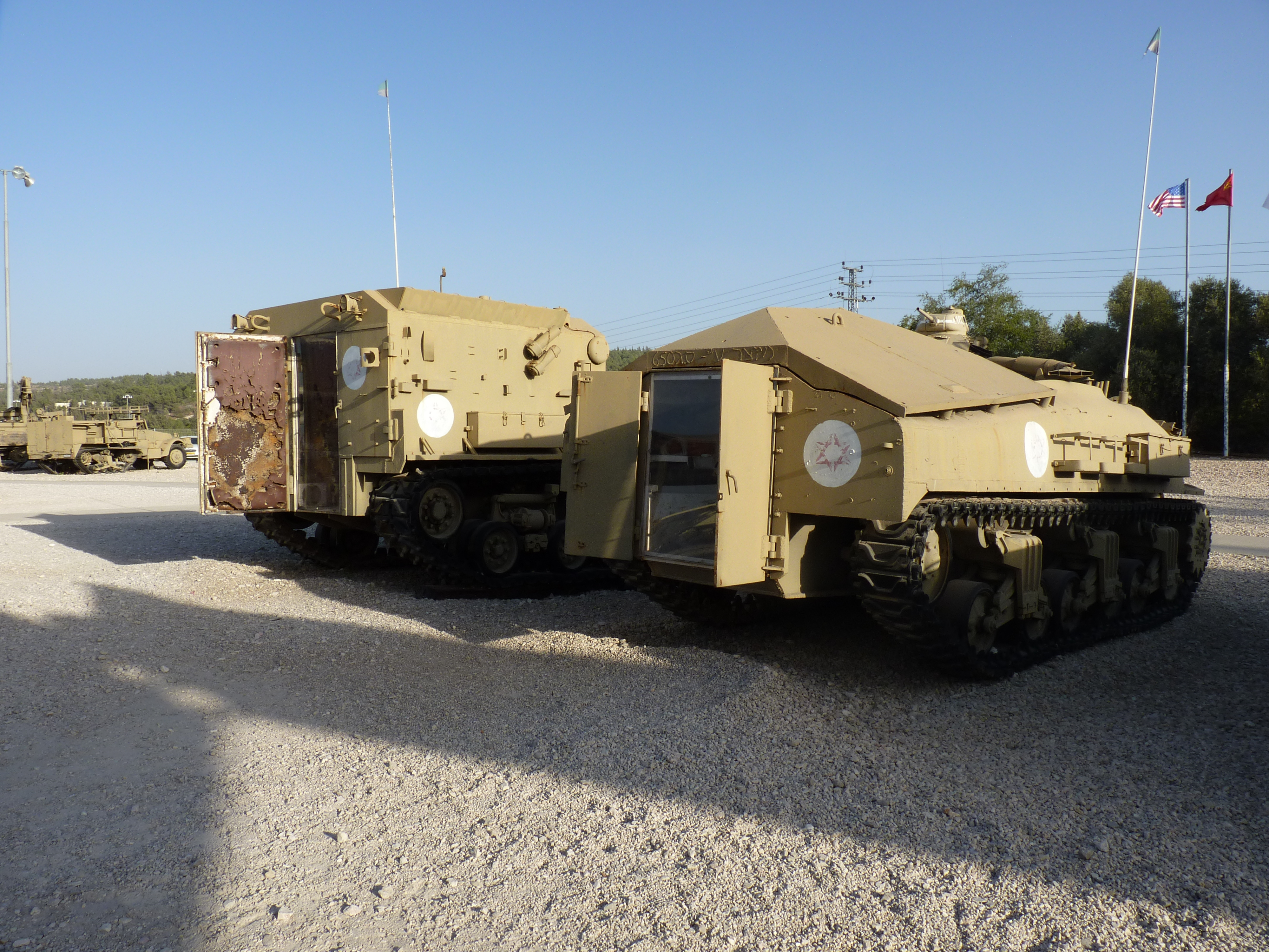 P1100591 Latrun - Armored Corps Museum